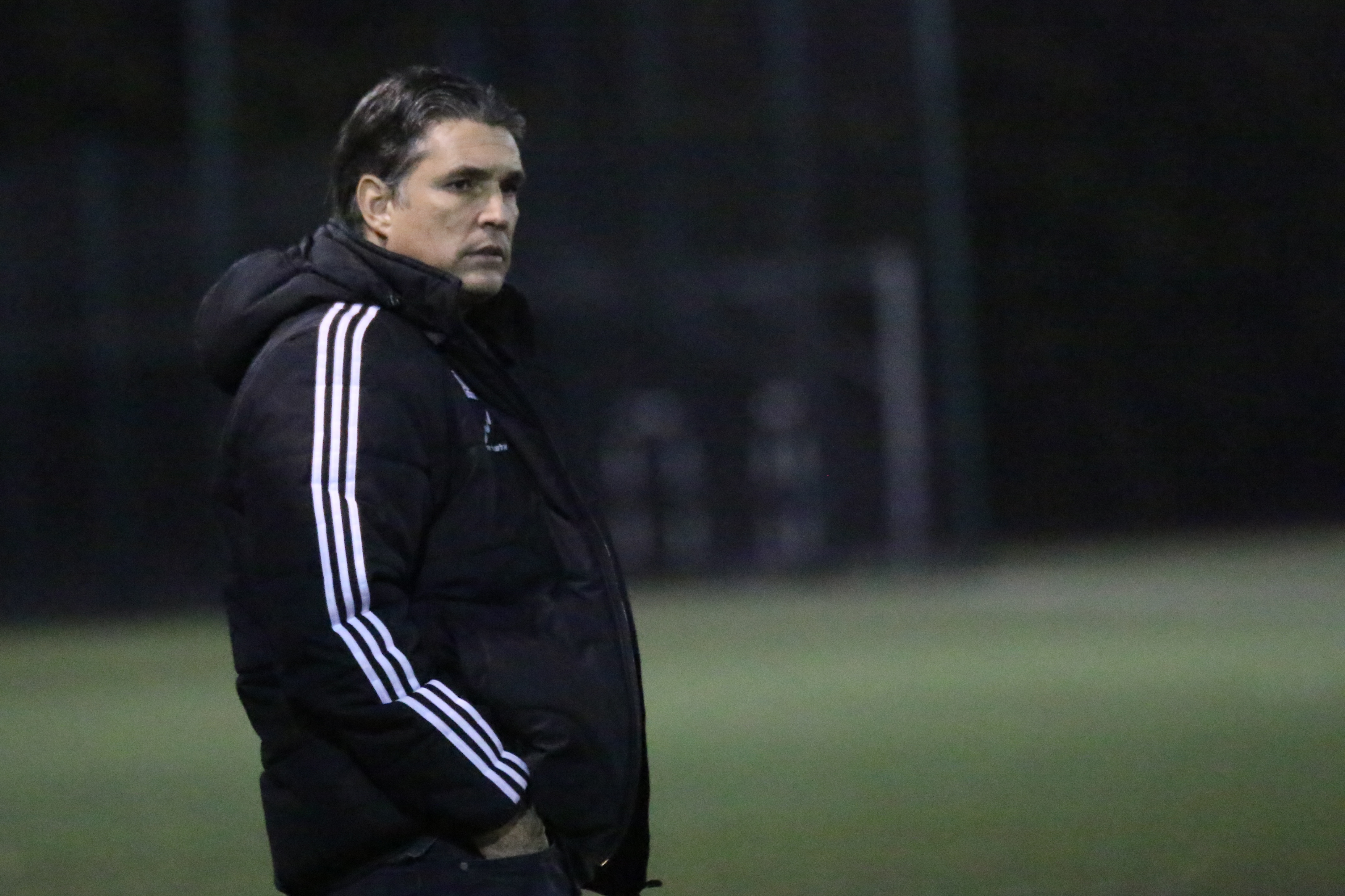 Guy Azouri